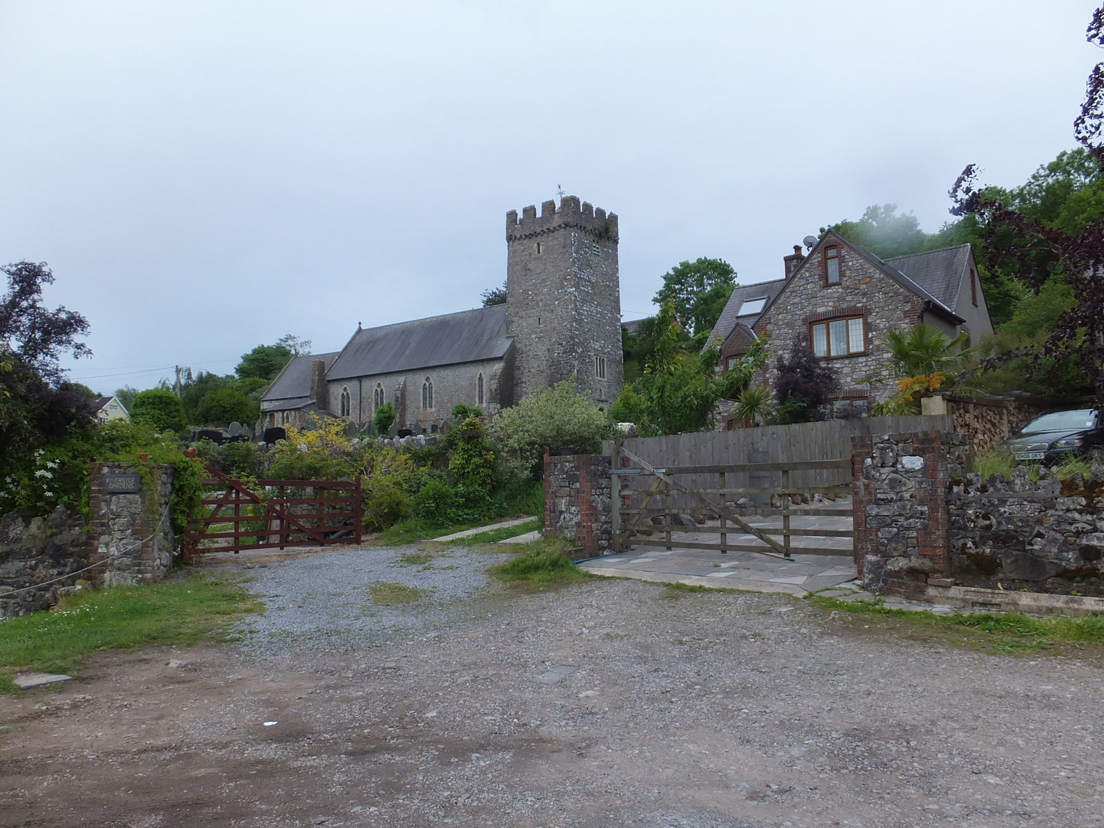 Llanrhidian parish church of St Rhidian and St Illtyd